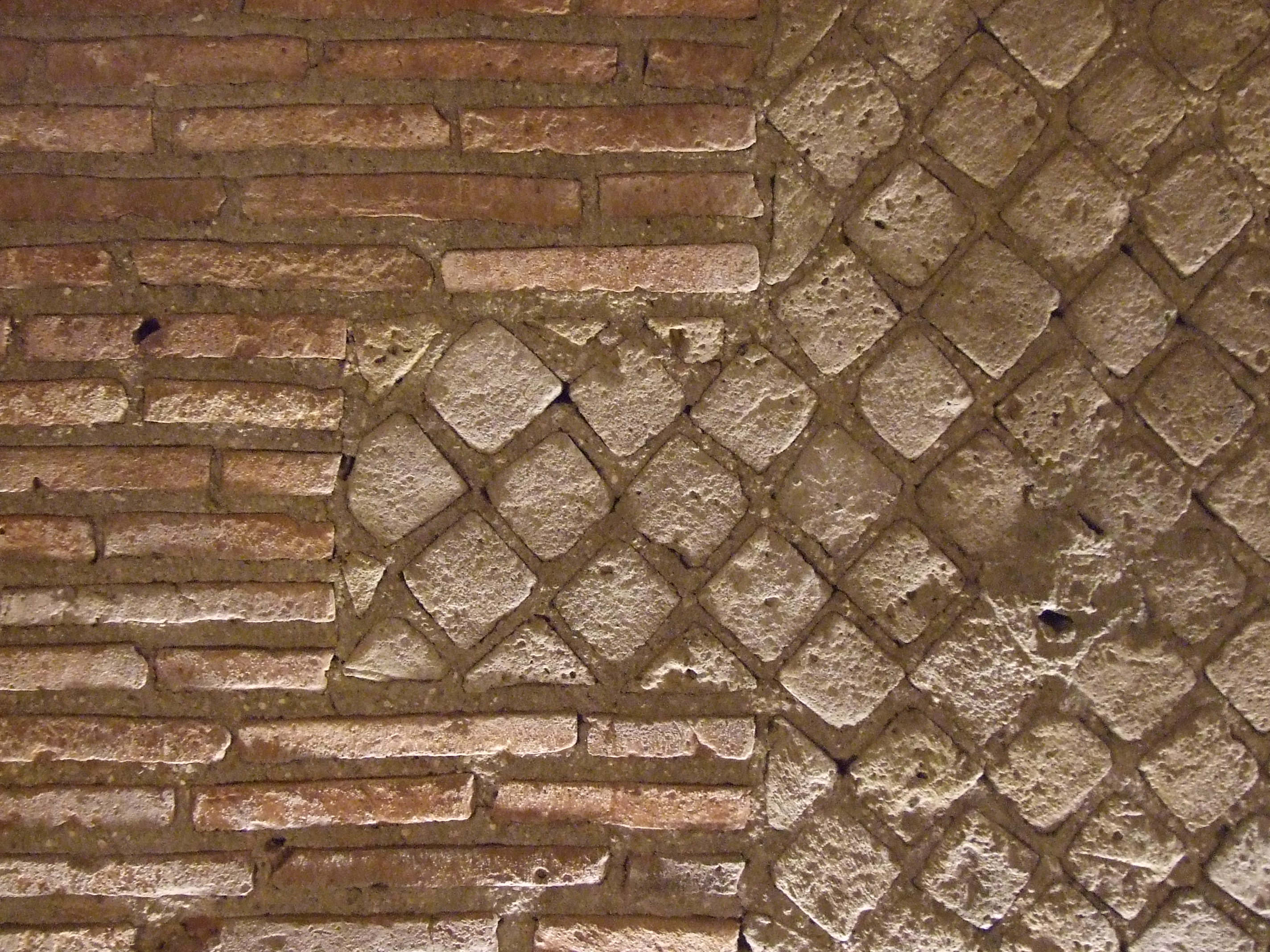 Detail of opus compositum, Roman theatre, naples.